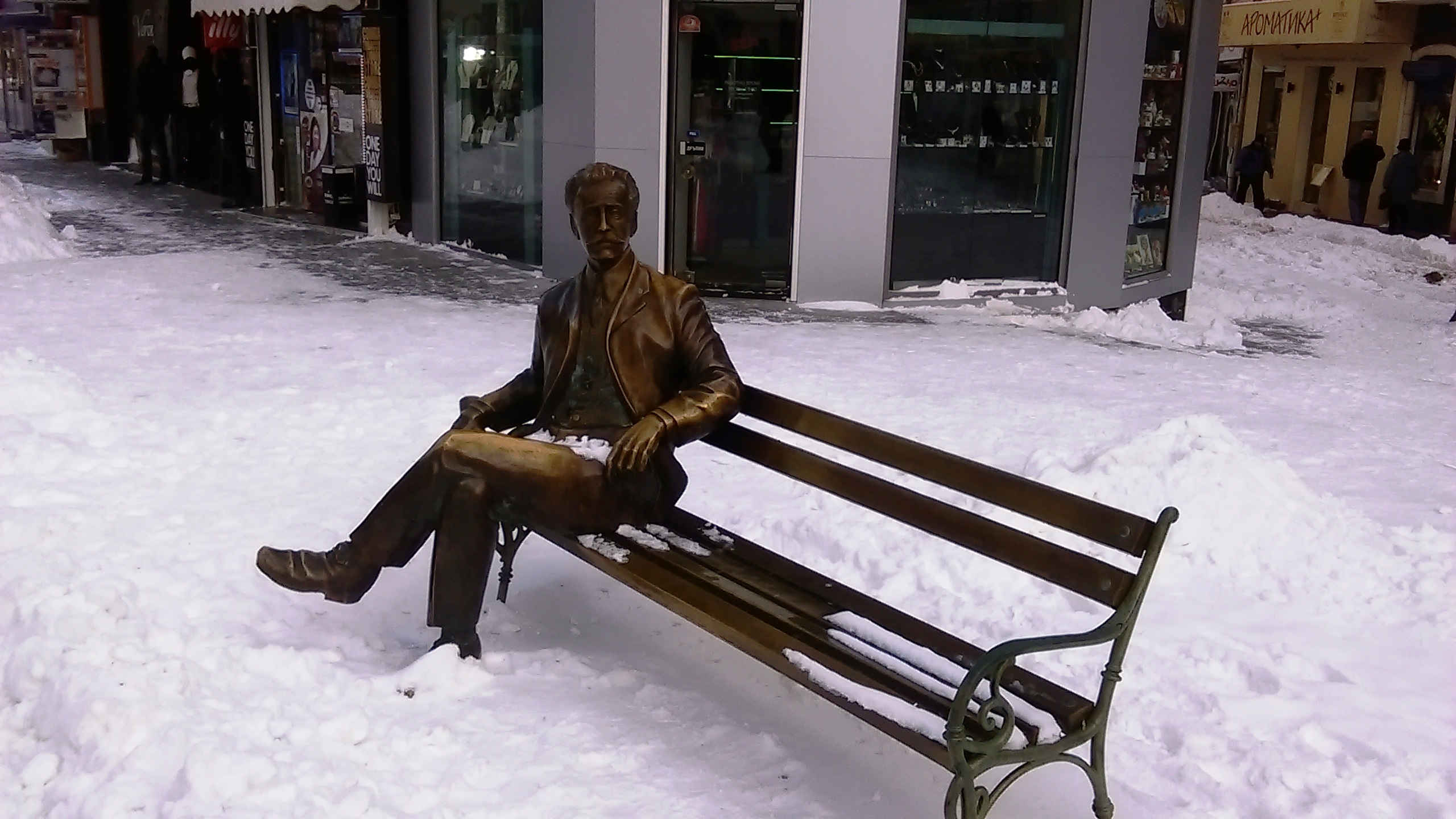 A street monument to the Bulgarian architect Dabko Dabkov in Varna